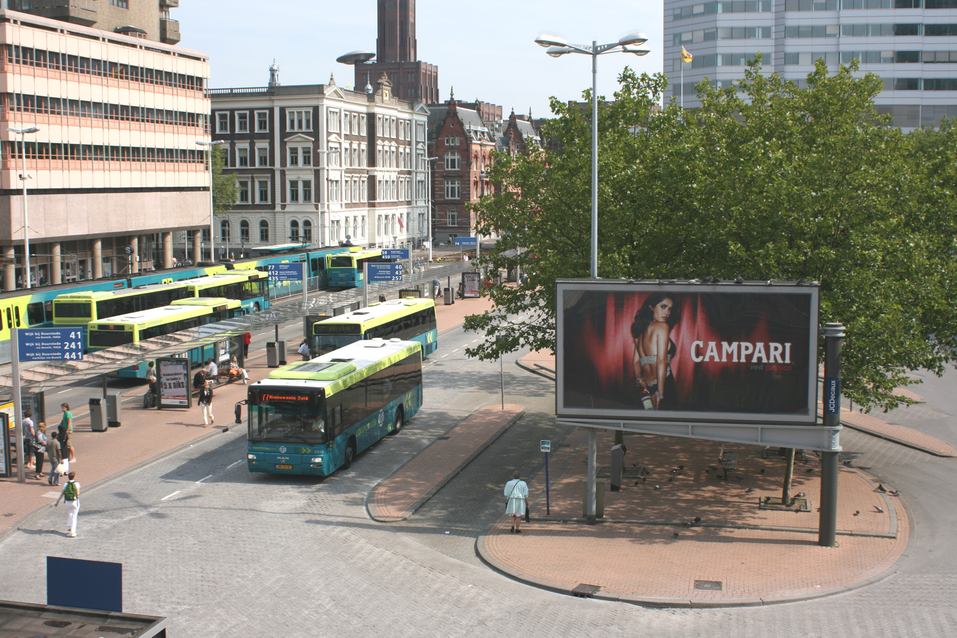 MAN Lion's City T (EL283?) bus (#8846) in Utrecht, Netherlands.